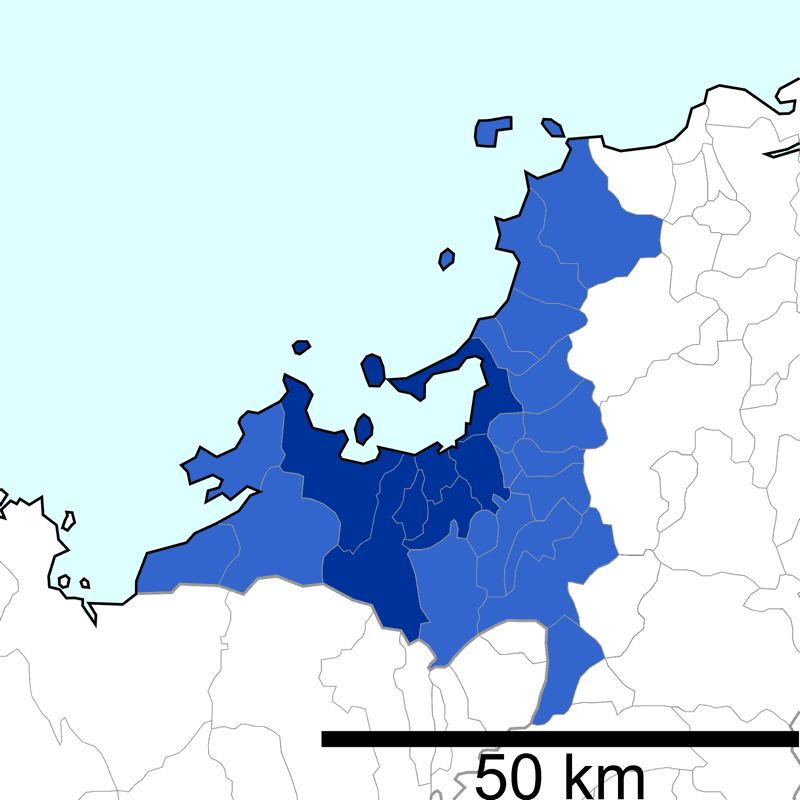 Urban Employment Area of Fukuoka in 2015